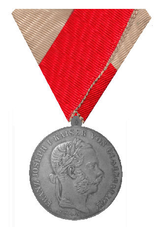 Medal to commemorate the defense of Tyrol in 1866